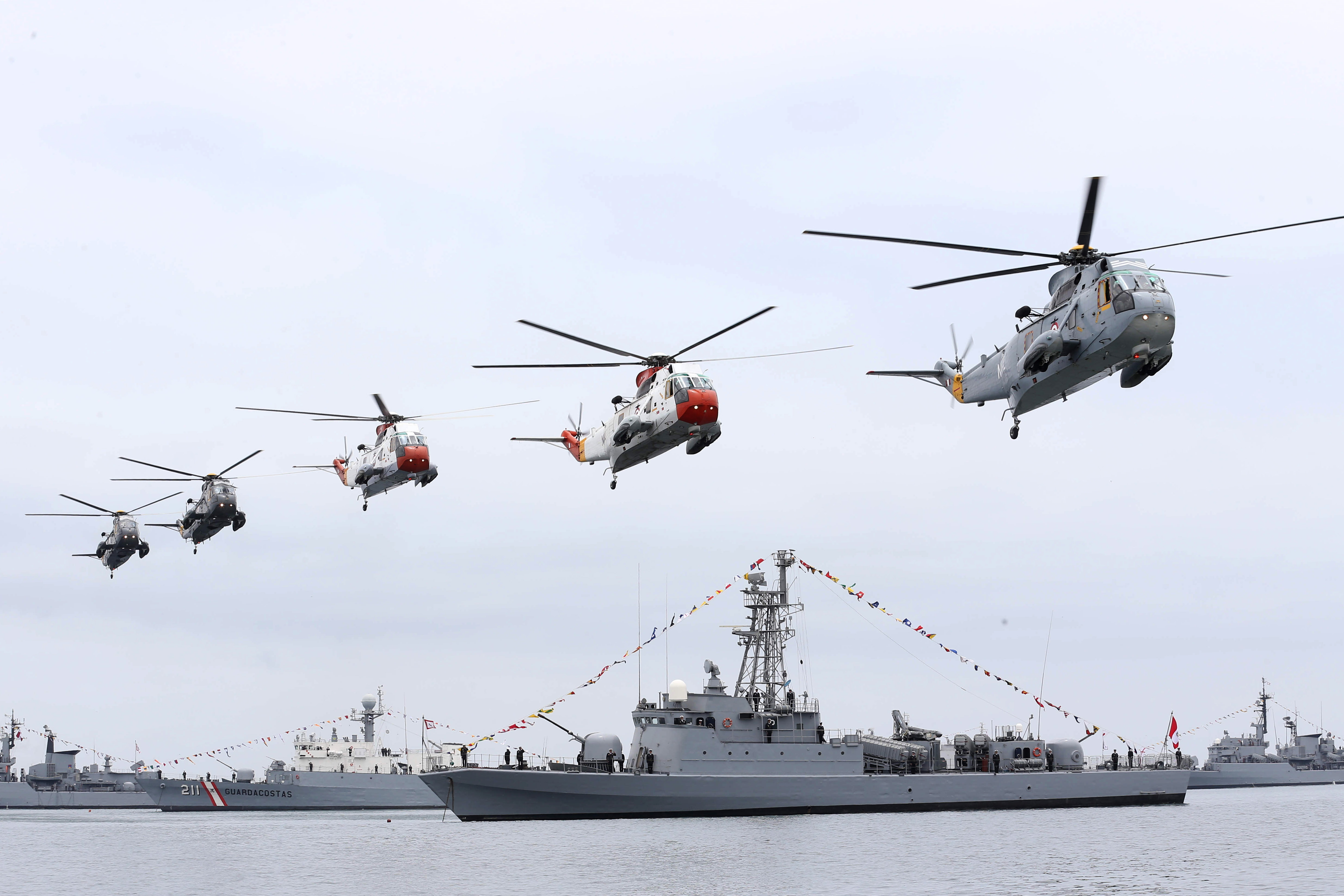 Celebration of the 195th anniversary of the Peruvian Navy.